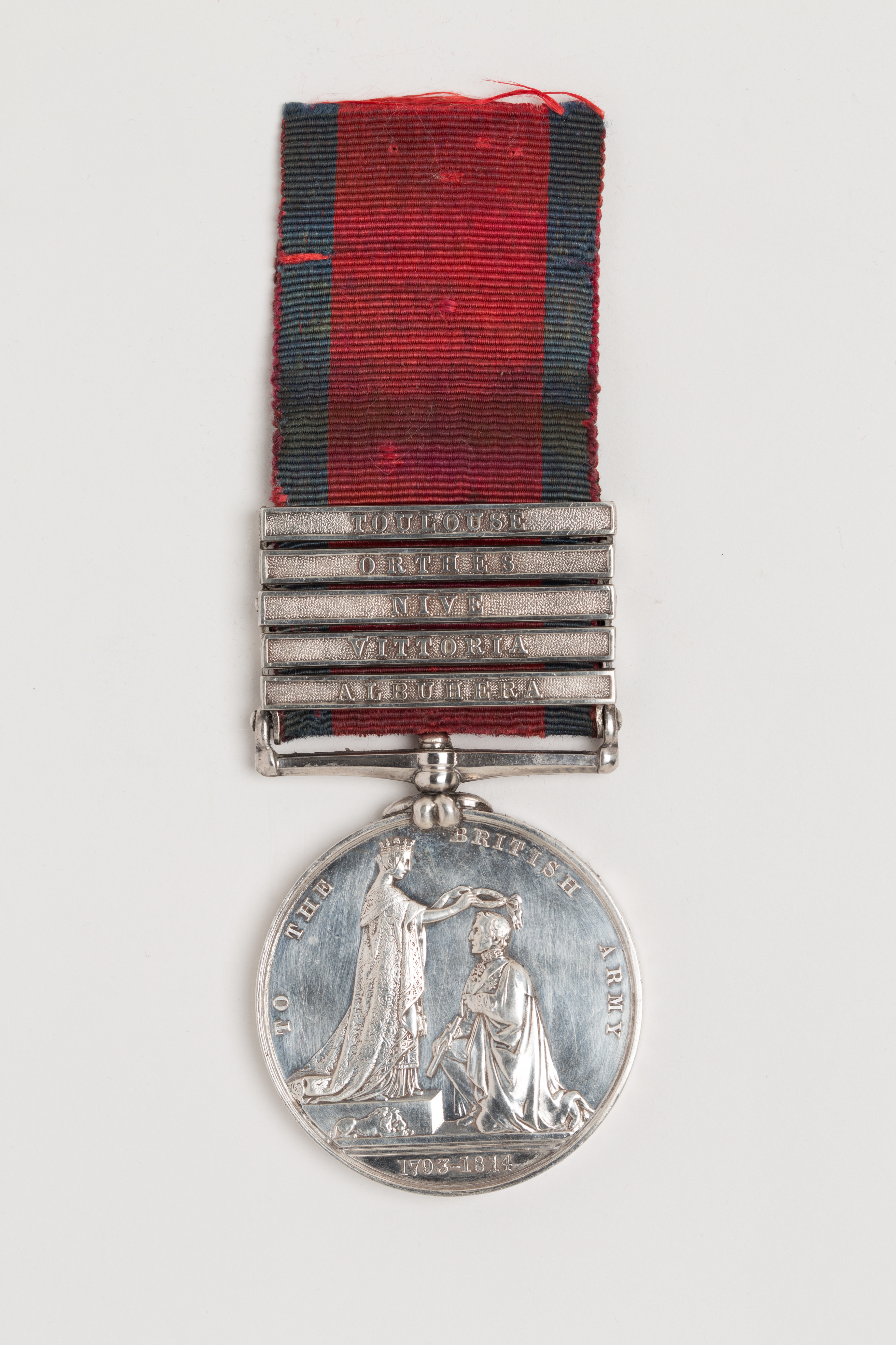 Military General Service Medal 1793-1814 (five bars) Medal awarded to Richard Butler, 13th Light Dragoons circular silver medal; 36mm diameter; plain straight swivelling suspender; five bars; with ribbon obverse- diademed head of Queen Victoria facing left; legend and date- VICTORIA REGINA 1848 reverse- Queen Victoria on dais placing laurel wreath on head of Duke of Wellington; small British lion beside dais;legend around (top half of medal)- TO THE BRITISH ARMY; dated in exurgue- 1793-1814 bars- ALBUHERA - VITTORIA - NIVE - ORTHES - TOULOUSE named on edge- RICHARD BUTLER, 13TH. LIGHT DRAGOONS. markings- obverse- medallist's name under neck of VR- W.WYON R.A.